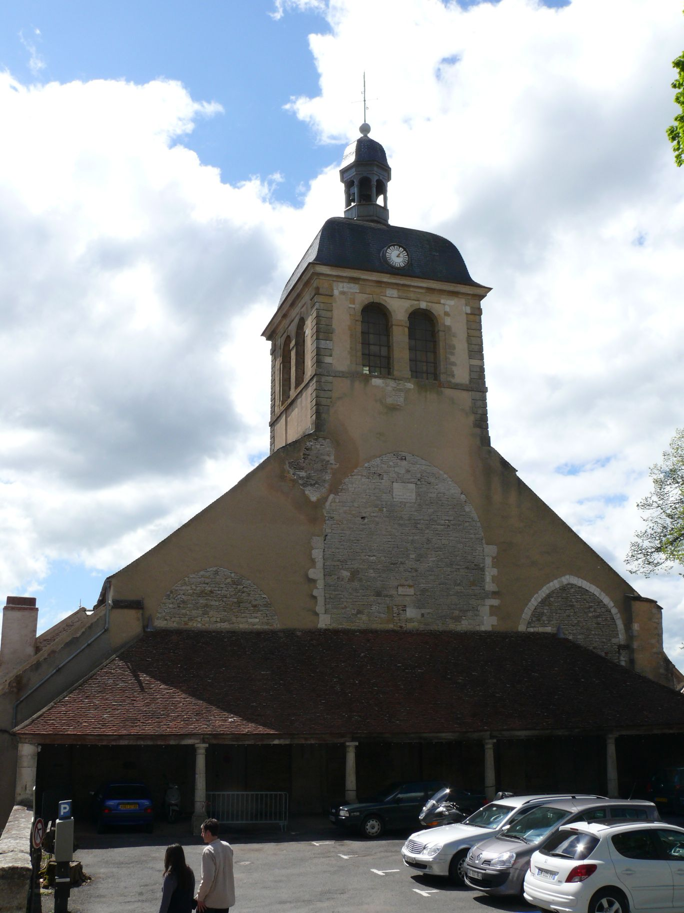 The former Saint Peter's church, currently "clock tower", at Borot Square, in Vézelay (Yonne, Bourgogne, France).